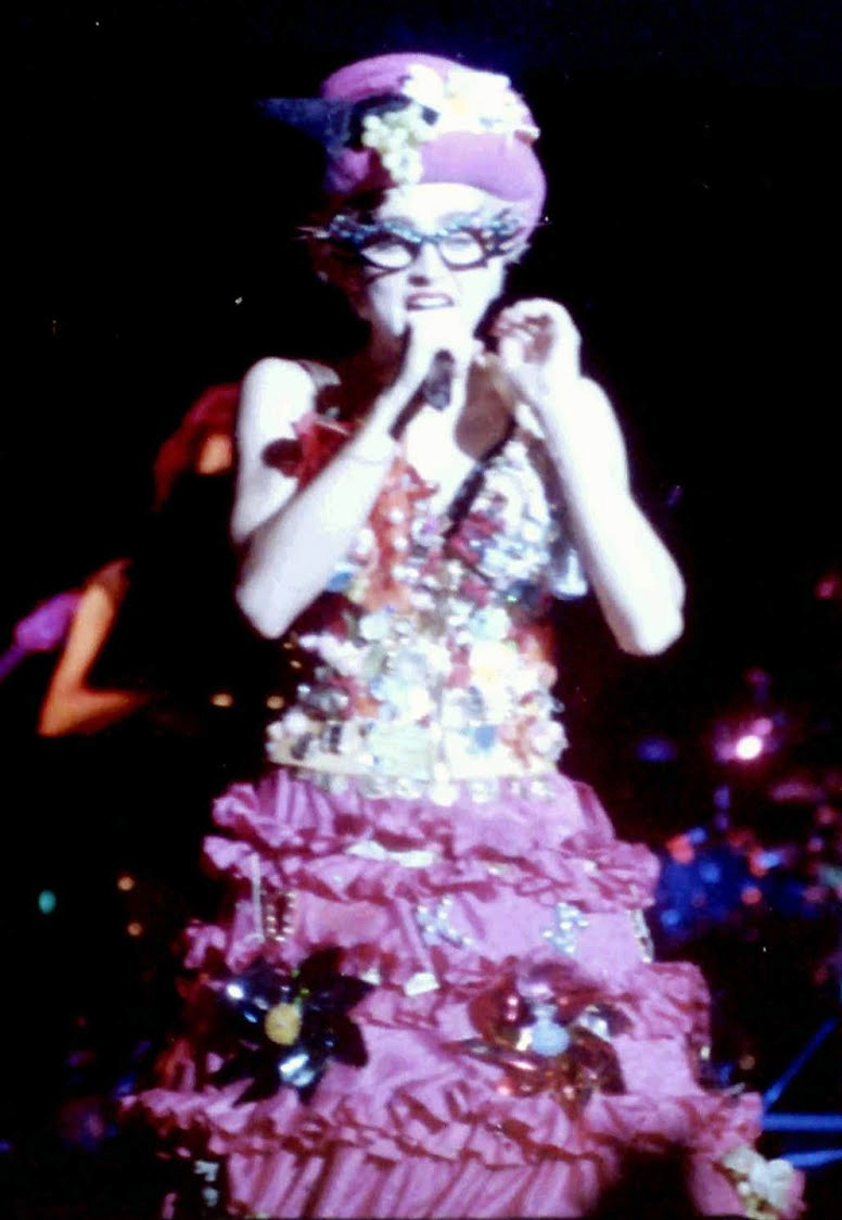 Wembley Stadium Londen Engeland juli '87